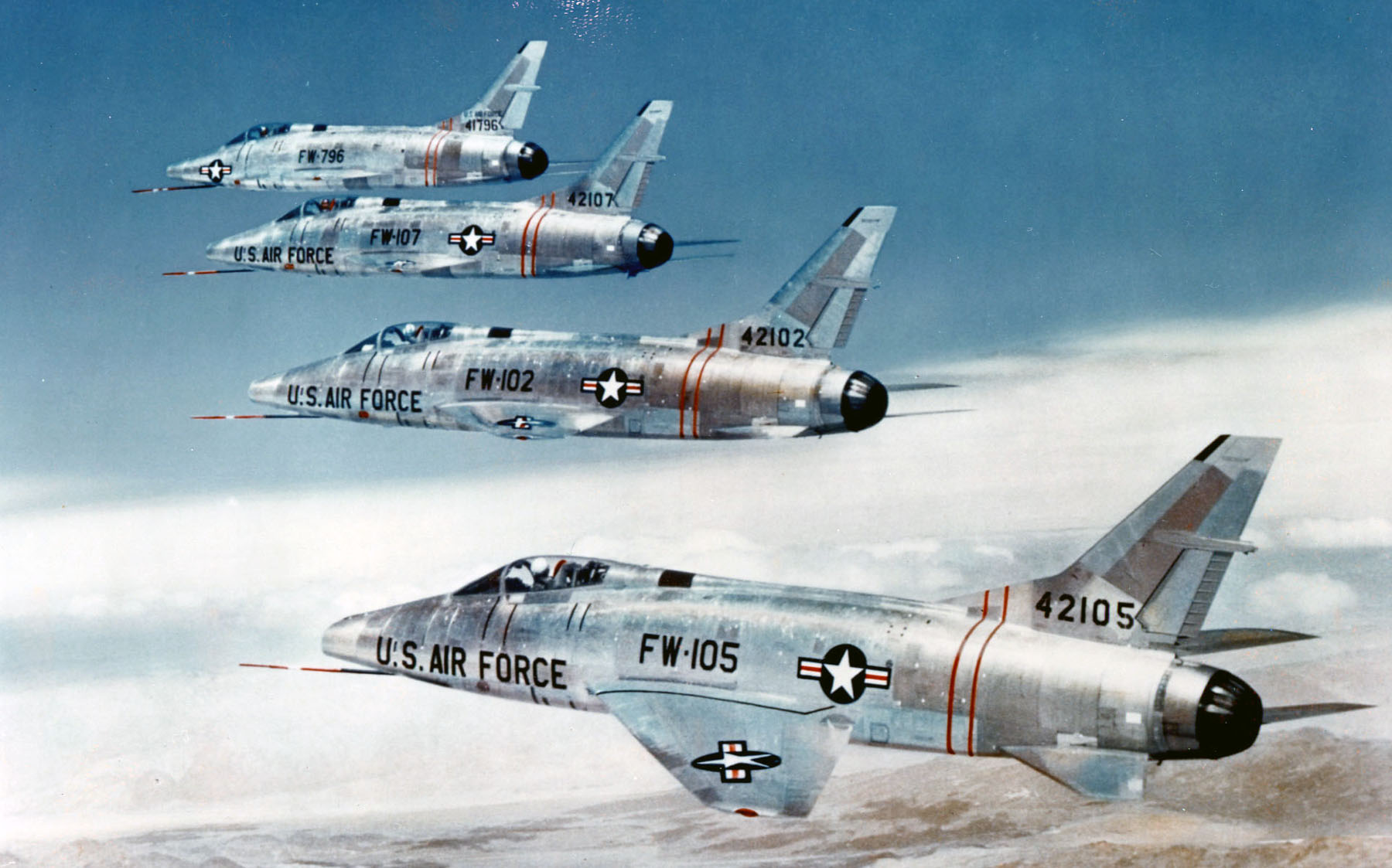 A formation of four U.S. Air Force North American F-100C Super Sabres (S/N 54-2105, 54-2102, 54-2107, 54-1796).